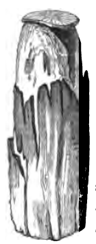 Line drawing of a partly destroyed wooden barrel with bog butter in it, found in Ireland. Bog butter is butter found in swamps, placed there for preservation.